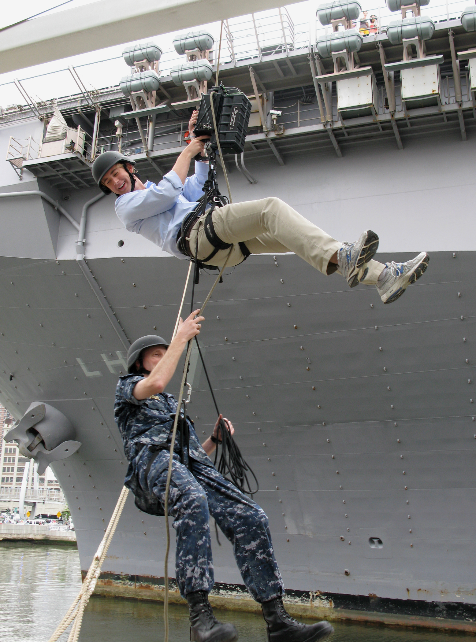 NEW YORK, N.Y. (May 27, 2010) Office of Naval Research (ONR) Command Master Chief Charles Ziervogel, bottom, and Fox News reporter Peter Doocy demonstrate the capabilities the ONR funded Atlas Power Ascender during Fleet Week New York 2010. The power ascender is a multi-purpose device that hauls combat rescue loads, extends warfigher stamina, and reduces mission exposure. Approximately 3,000 Sailors, Marines and Coast Guardsmen are participating in the 23rd Fleet Week New York, which will take place May 26 through June 2. Fleet Week has been New York City's celebration of the sea services since 1984. (U.S. Navy photo by Joseph Brus/Released)